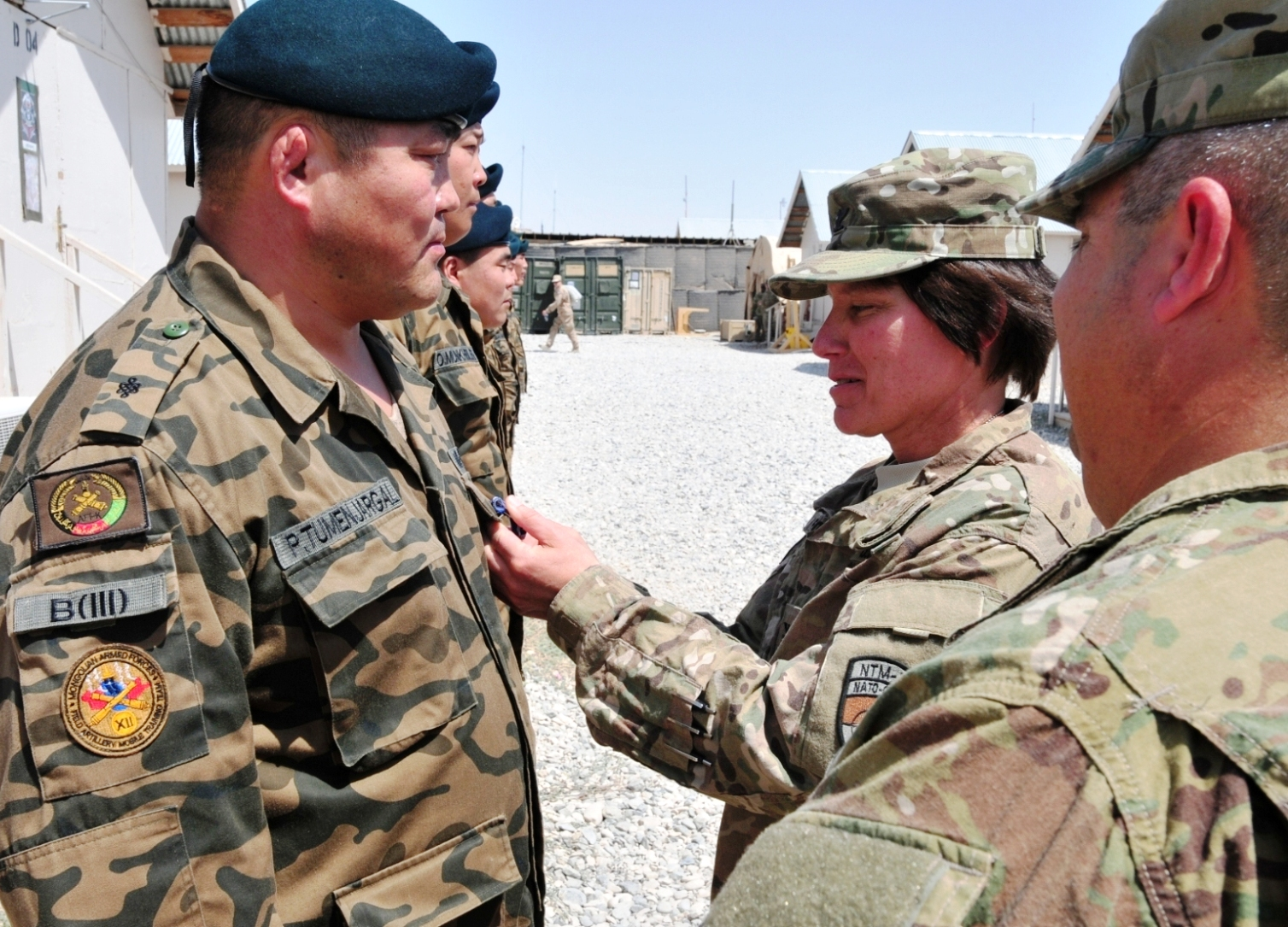 Army Col. Robin Fontes, Regional Support Command-North commander, presents Maj. Puntsag Tumenjargal, the commander of the Mongolian contingent deployed to RSC-N, with the non-article 5 NATO medal at Camp Mike Spann, near Mazar-e-Sharif, Afghanistan. The soldiers are part of a Coalition forces team that trains Afghan National Army soldiers in the use of field artillery, specifically the D-30 Howitzer, a 122-mm, Soviet-designed artillery gun. (Air Force photo by Tech. Sgt. Mike Andriacco)